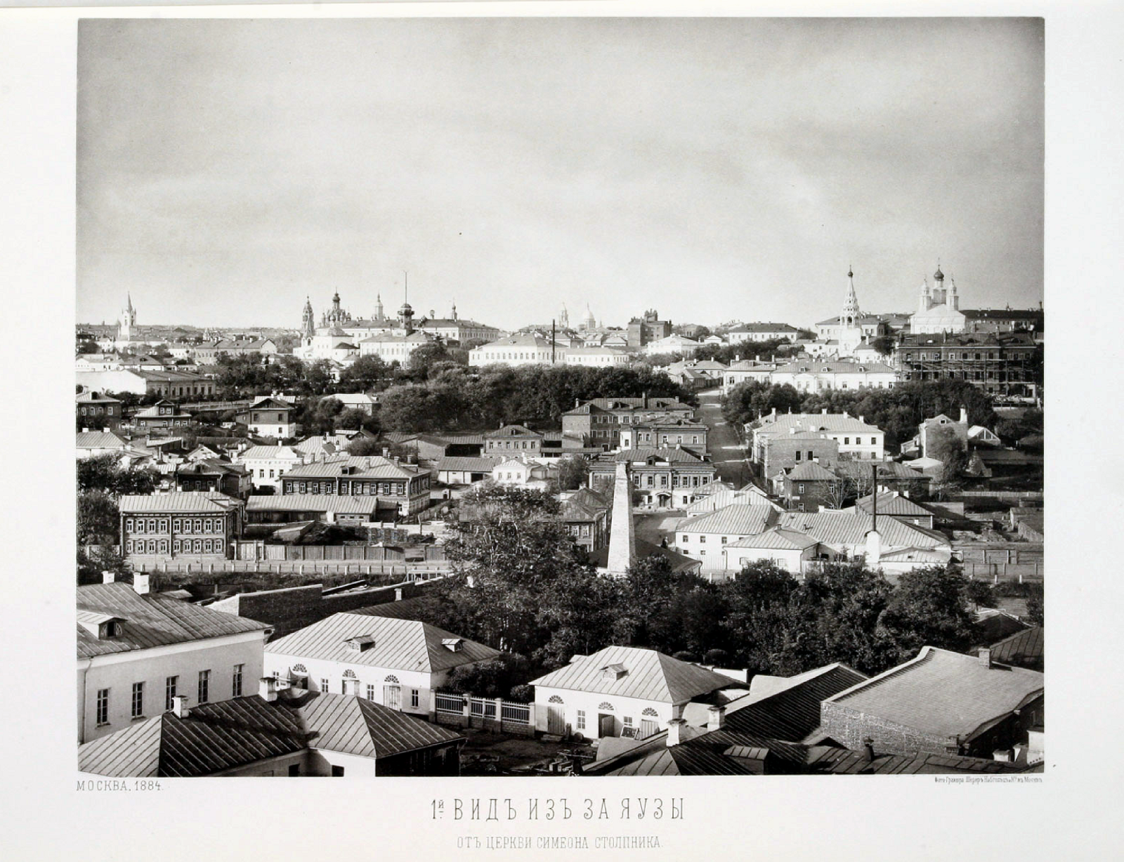 Plate 20. View of Moscow center across the Yauza River, from church of St. Simon Stylite.